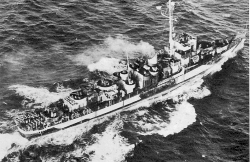 The U.S. Navy destroyer escort USS Evarts (DE-5) underway in 1944. Note that she is still equipped with he a quadruple 1.1" gun aft in place of the 40 mm Bofors.